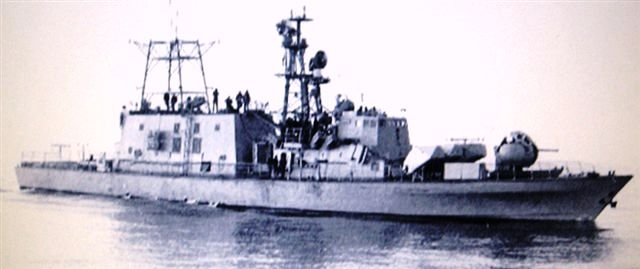 INS Geula - The Command missile boat in the Lebanon war 1982